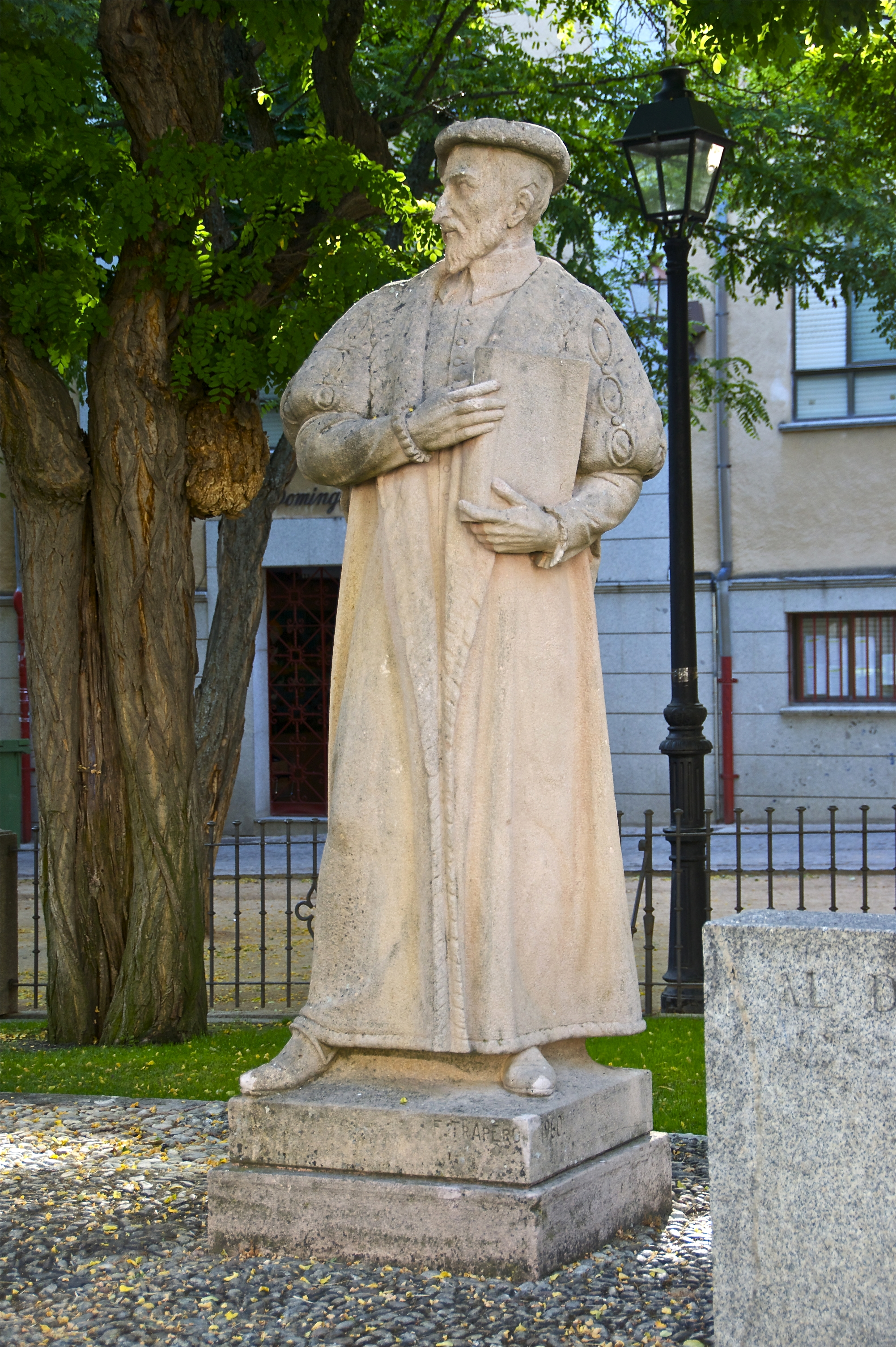 Statue of Andrés Laguna, by F.Trapero, 1960, Segovia, Spain.